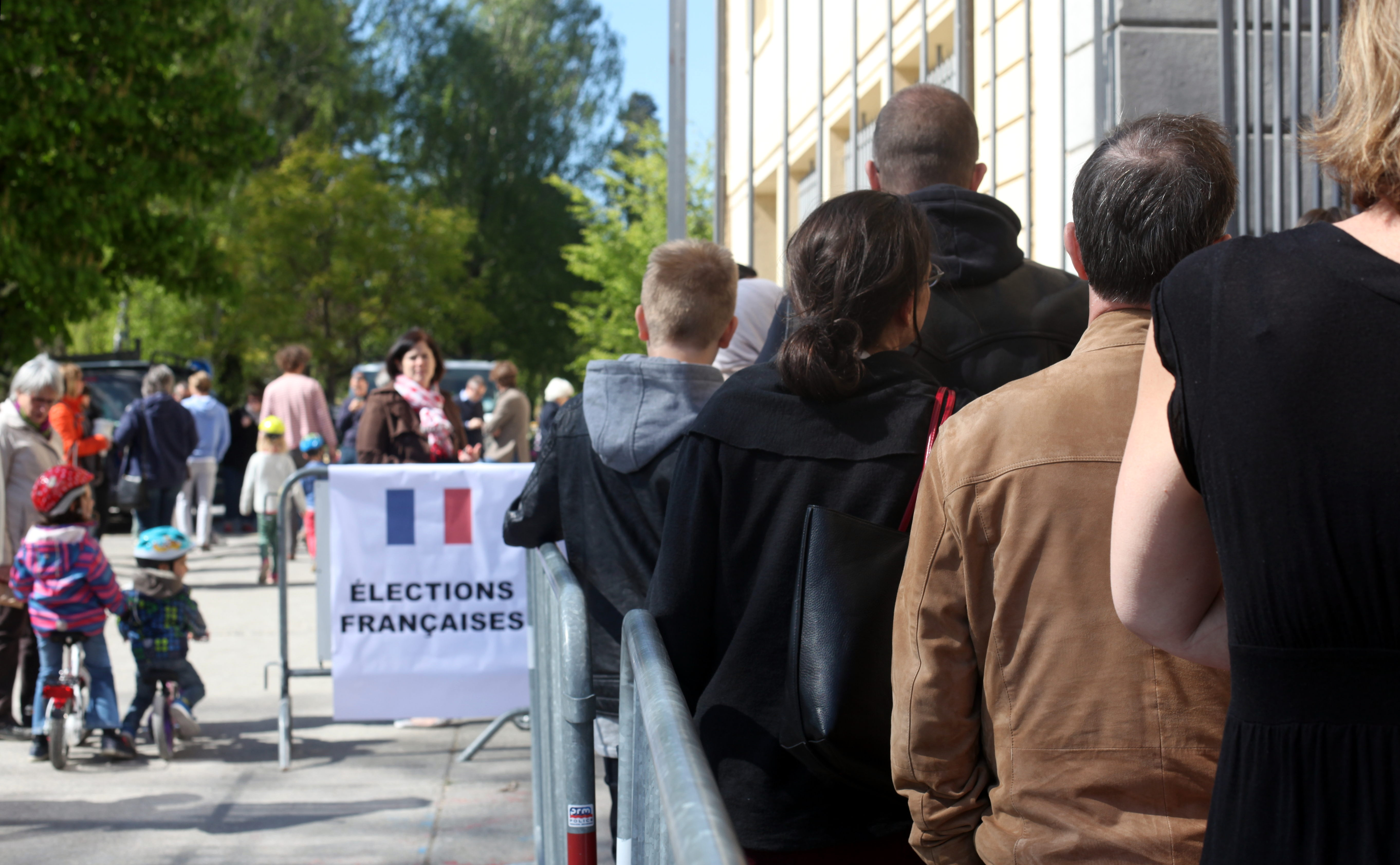 Scenes of the French presidential election, 2017 with French peoples in Switzerland voting at Morges polling station.